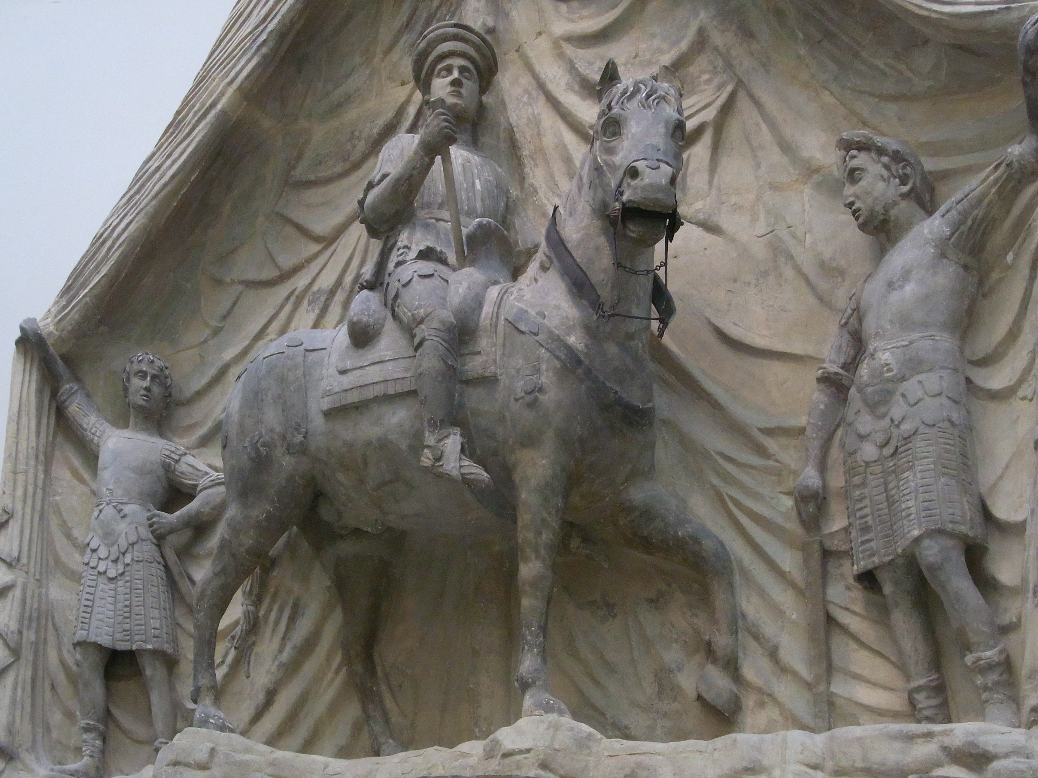 Monument to Marchese Spinetta Malaspina; Stucco, marble, Istrian stone; made in Verona, Italy; attributed to Antonio da Firenze, figures by Pietro di Niccolo Lamberti and Giovanni di Martino da Fiesole; Museum no. 191-1887 description of the monument